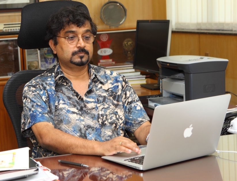 Dr. Mrinal Sen